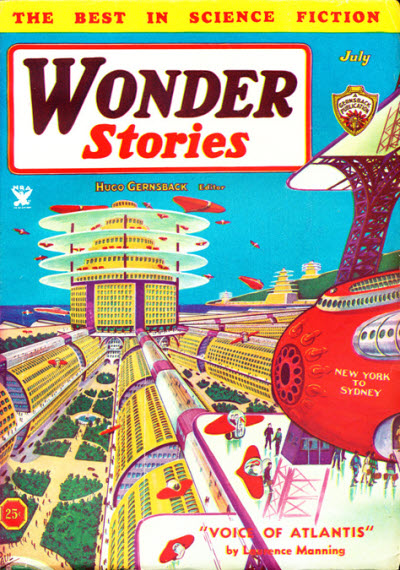 Cover of Wonder Stories, July 1934